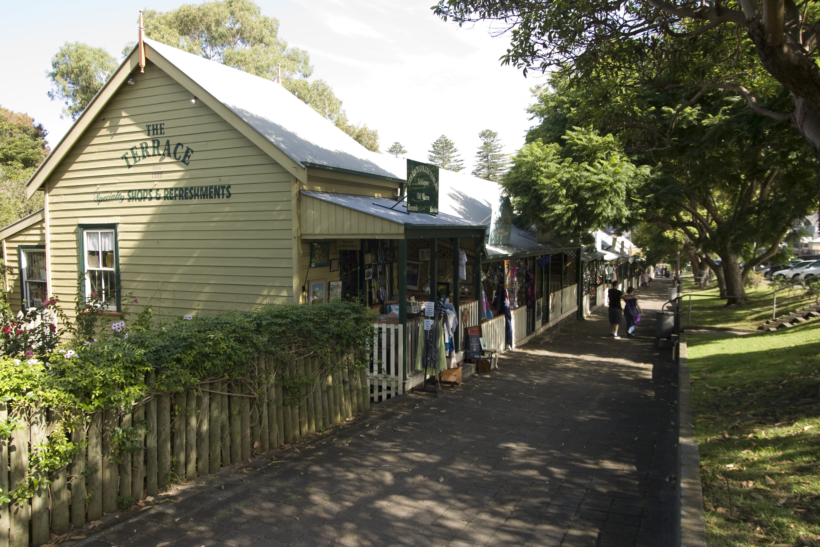 The Terrace